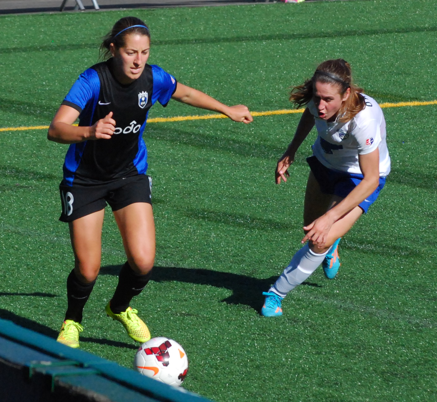 Seattle Reign FC vs Boston Breakers Memorial Stadium, Seattle Center Seattle, WA July 6, 2014